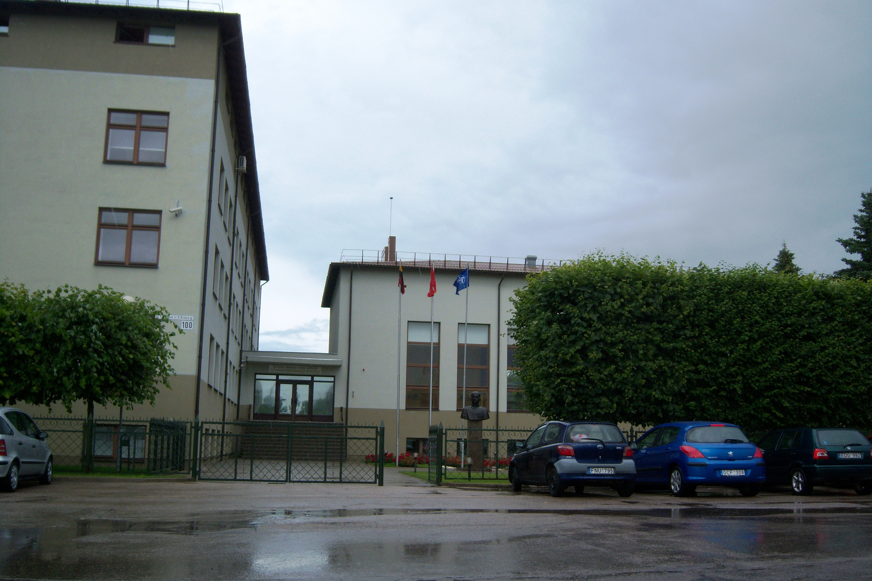 General Stasys Raštikis military school in Linksmadvaris, Kaunas. Lithuania